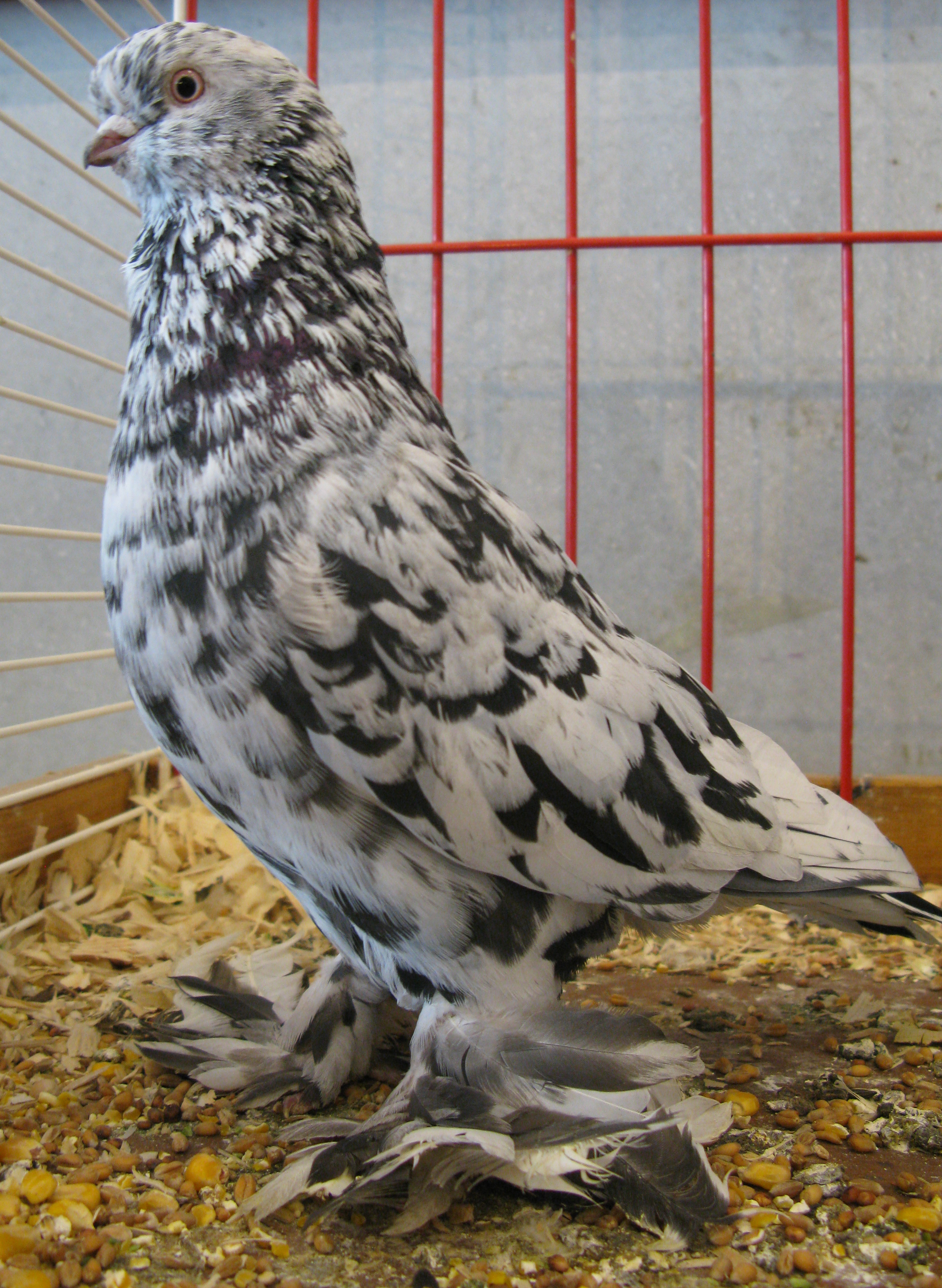 Fancy pigeon (columba livia), spotted, Romagnol breed, at Paris International Agricultural Show.